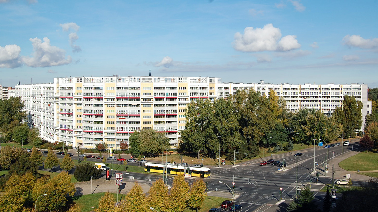 Berlin Platz der Vereinten Nationen, former "Leninplatz", called "Schlange" (snake), Nr. 23 - 32